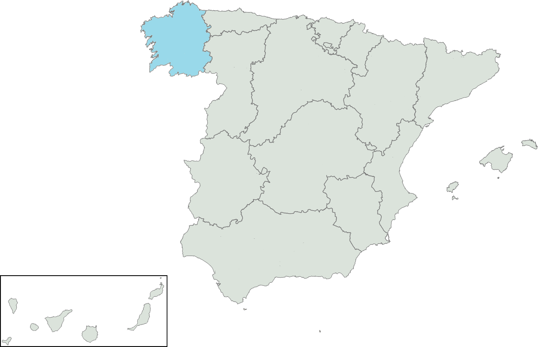 Region of galicia (1833-1981)